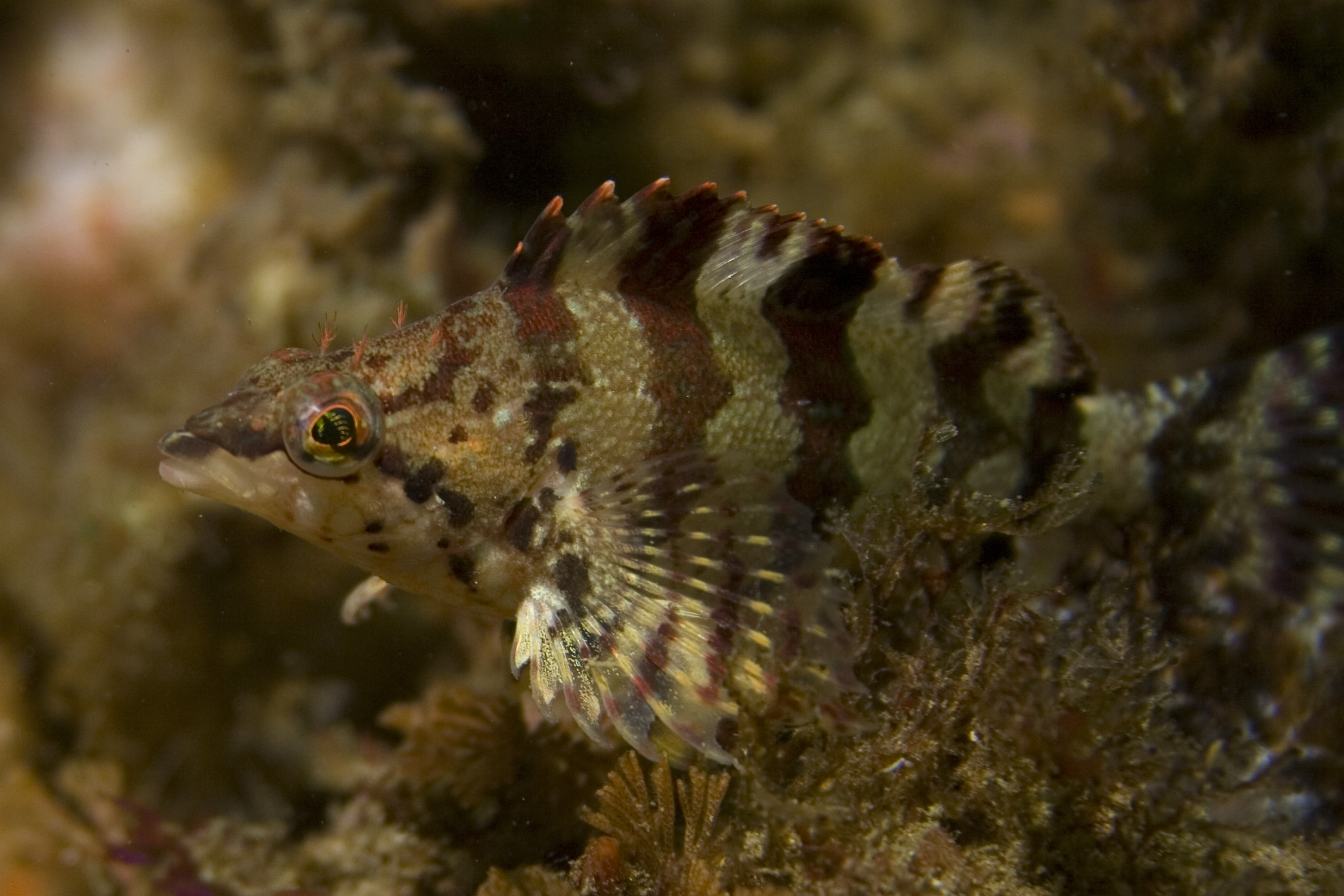 Painted Greenling; Oxylebius Pictus; Northern Channel Islands, California, USA